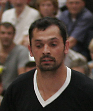 Cédric Burdet, French handball player from Montpellier HB, during the Schlecker Cup 2007 in Ehingen (Germany)